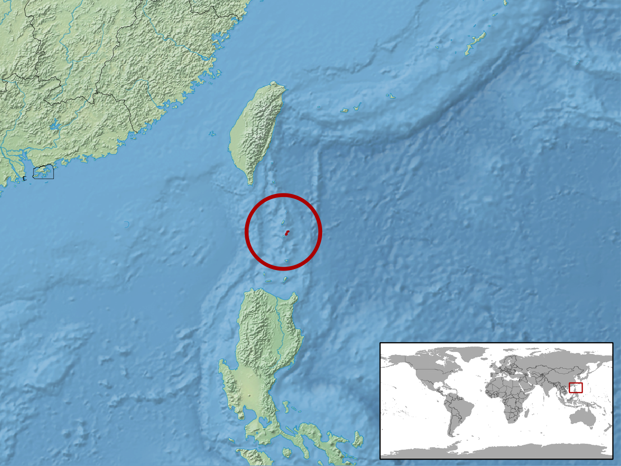 geographic distribution of Draco jareckii (Native: Philippines)